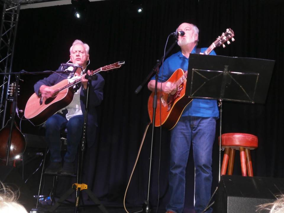 Gallagher and Lyle on stage at The Albany Theatre, Greenock on 28 July 2017